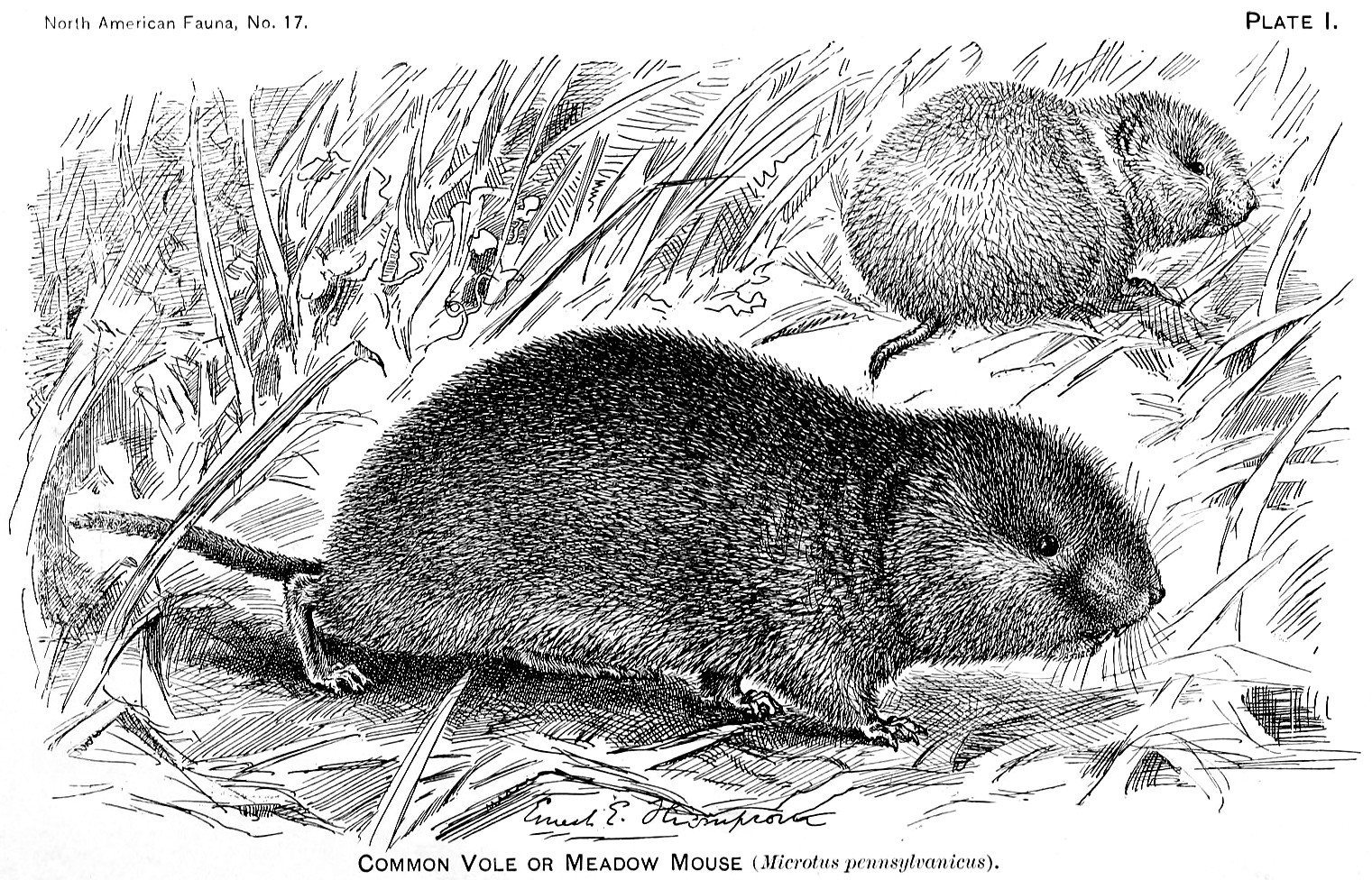 Microtus pennsylvanicus illustration from Revision of American voles of the genus Microtus, Bailey 1900